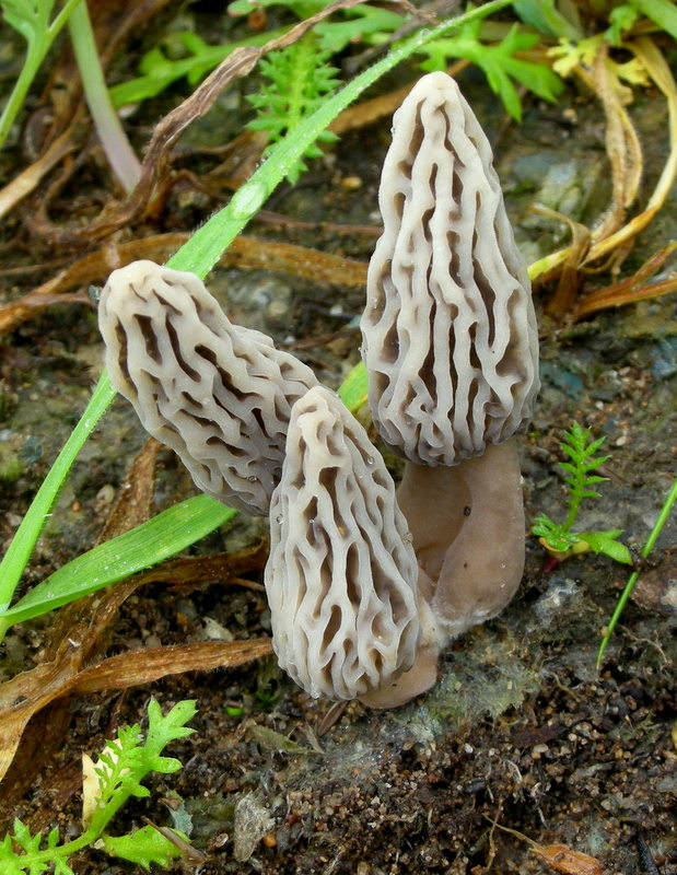 Morchella rufobrunnea Guzmán & F. Tapia Location: Fort Ord, Seaside, California, USA Observation Notes: These were growing on sandy disturbed soil.They are Liliputian sized, about 4 cm tall or less. Would never have seen them if I hadn’t been looking at something else.Can’t really be sure of the species but rufobrunnea is probably best guess for the habitat and time of year. For more information about this, see the observation page at Mushroom Observer.